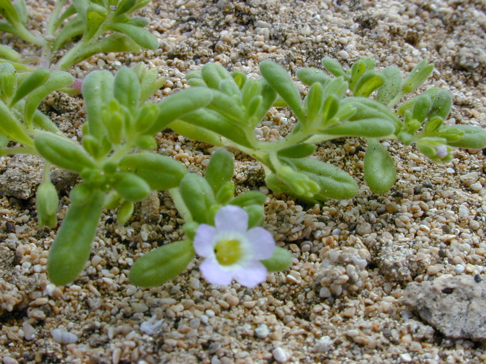 Nama sandwicensis (flower leaves). Location: Maui, Keopuolani park dunes